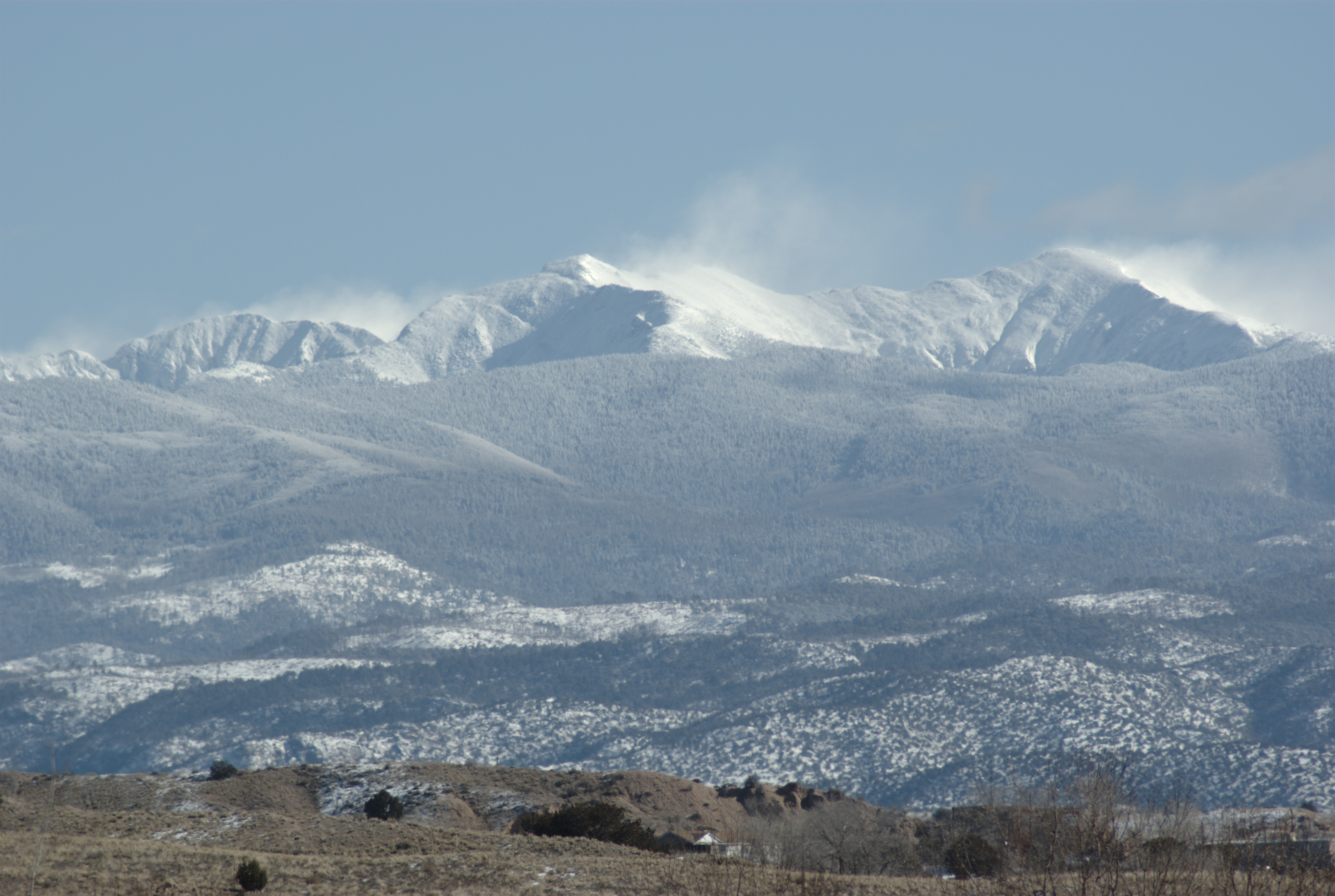 Truchas Peaks of the Sangre de Cristo Mountains — seen from Española, New Mexico (near the industrial park, I think). Snow is blowing from the tops. South Truchas Peak (right) is the second highest independent peak in the state, at 13,102 feet (3,993 m) in elevation. The peaks are in the Pecos Wilderness area — within Santa Fe National Forest.